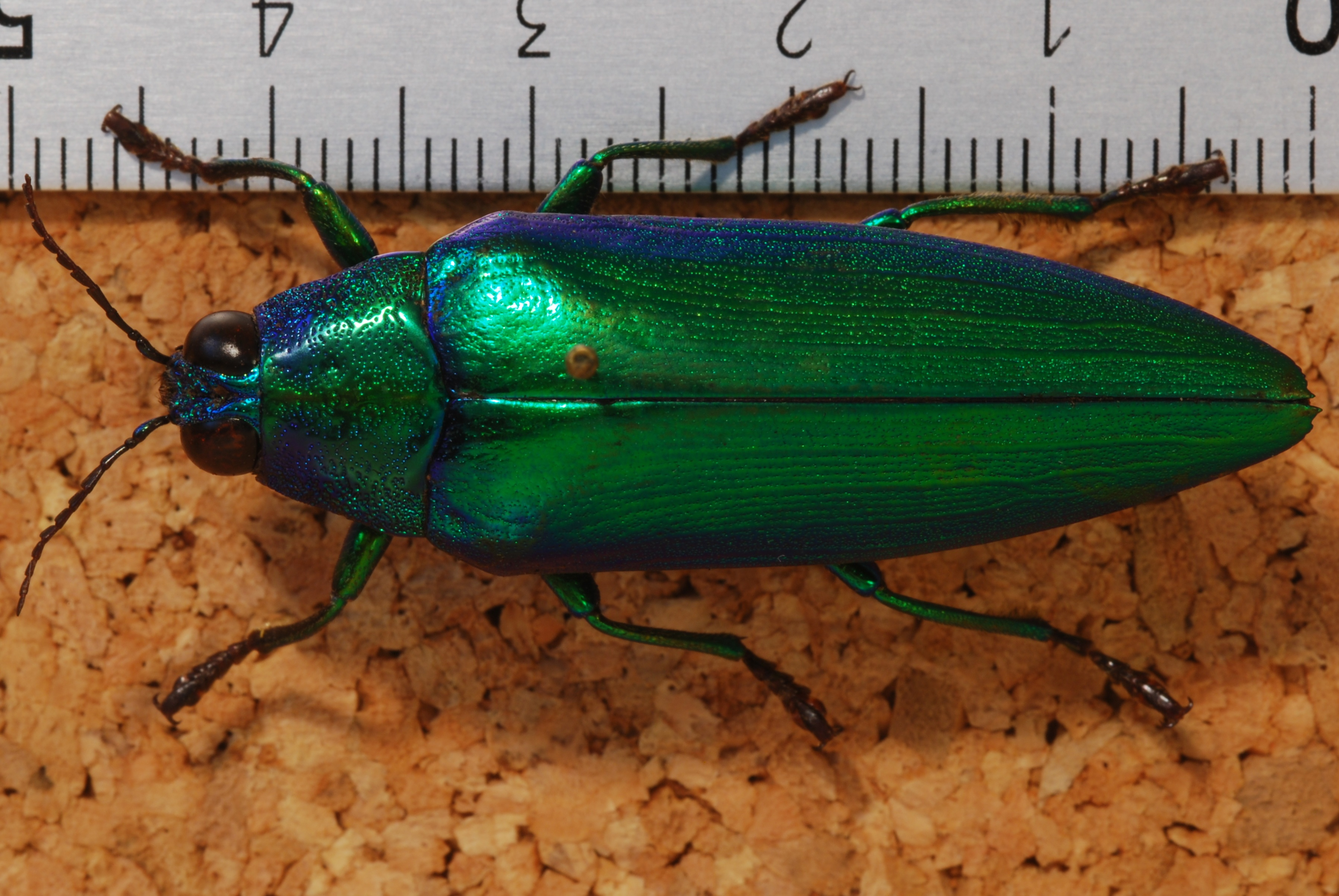 Cameron Highlands, MALAYSIA